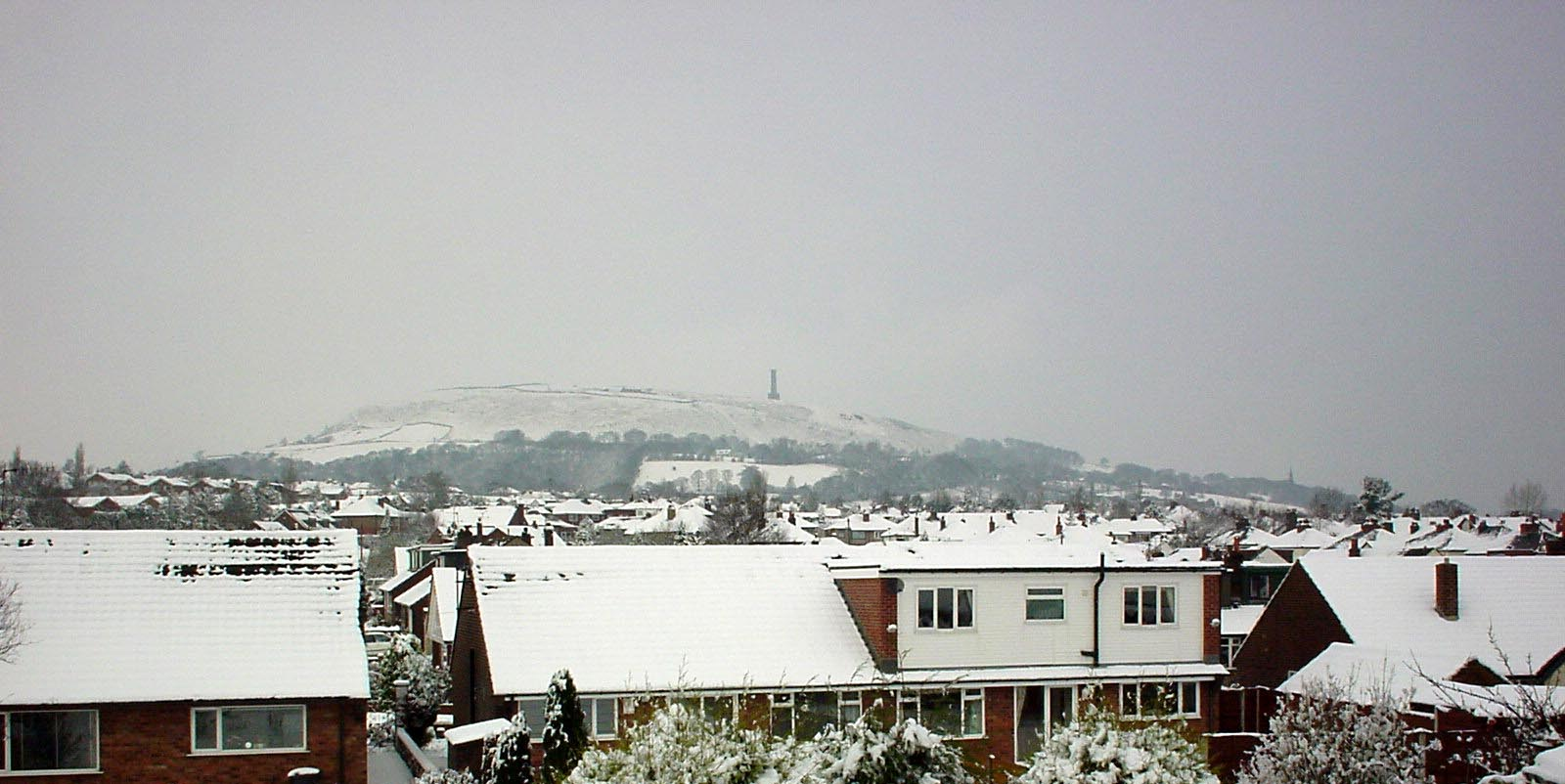 Picture taken from a rooftop in Greenmount on a snowy day, the view shows the Peel Tower standing on Harcles Hill (known locally as Holcombe Hill). Picture taken in approx 2002.